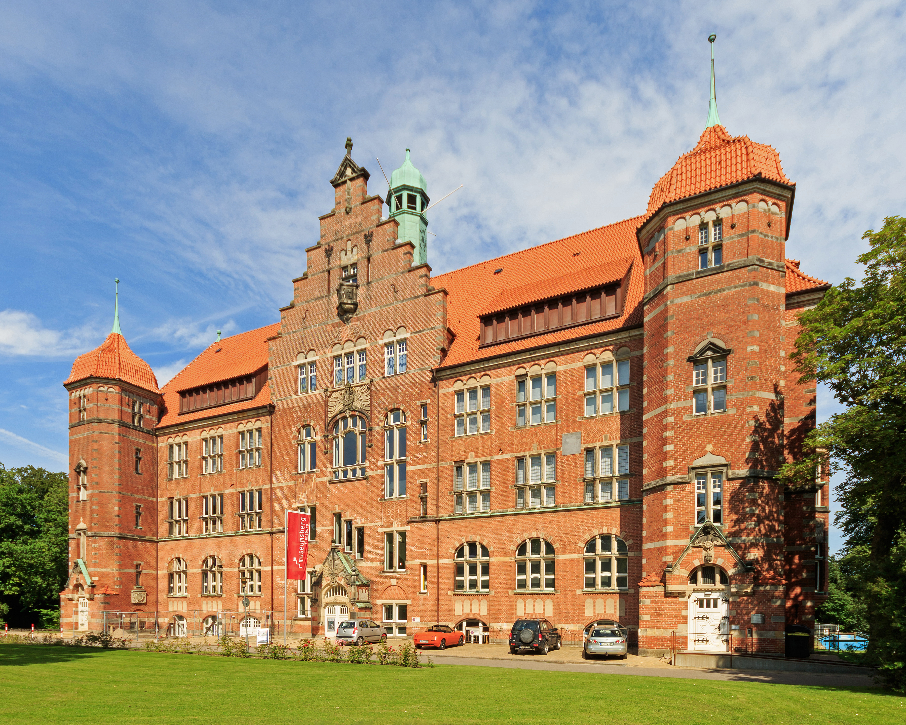 Museum Hill in Flensburg, Germany